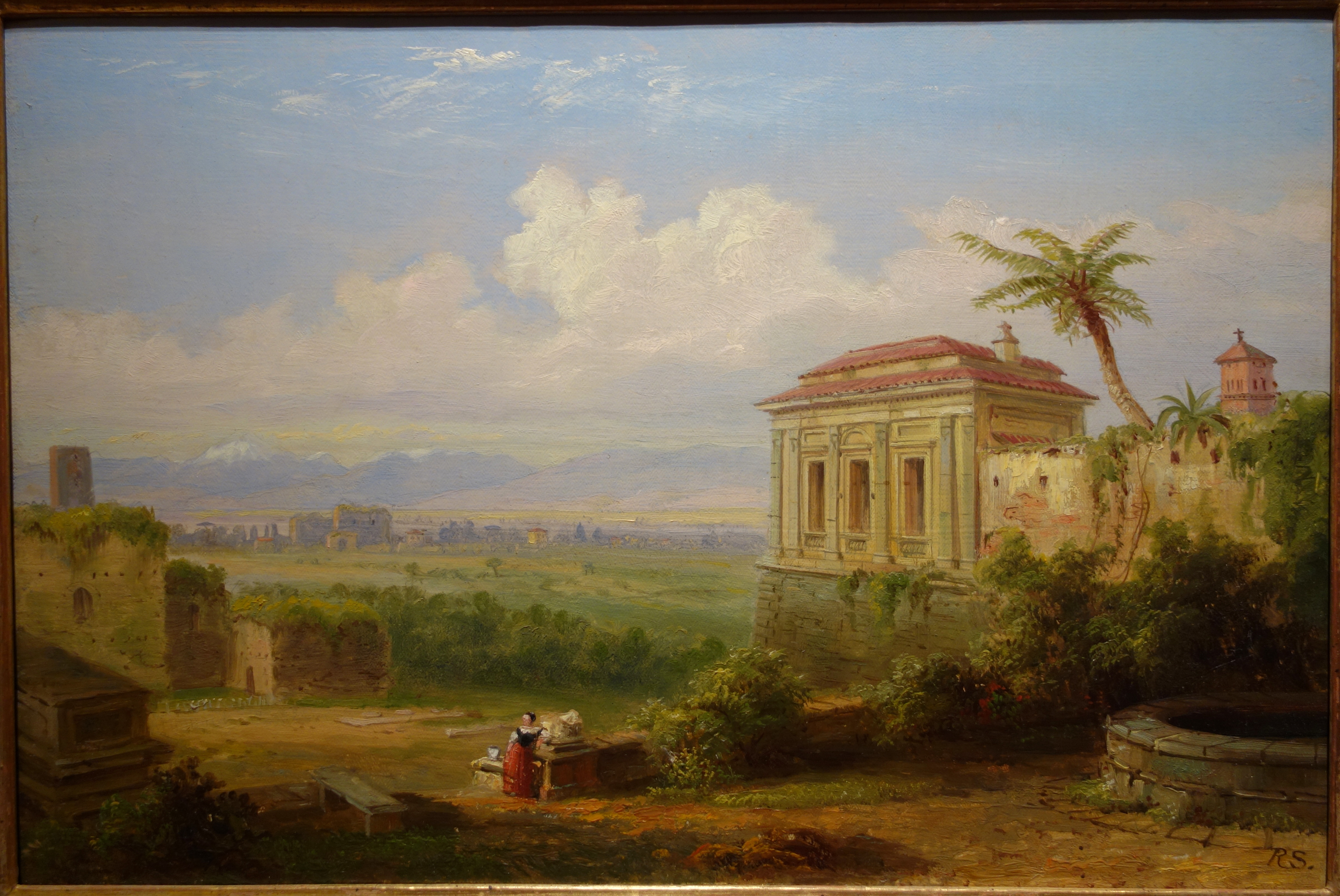 Exhibit in the New Britain Museum of American Art, New Britain, Connecticut, USA. This artwork is in the public domain because the artist died more than 70 years ago. The museum permitted photographs of this exhibit without restriction.